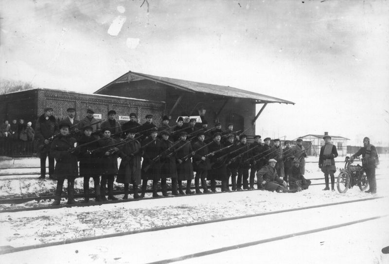 Lithuanian rebels in Rimkai railway station during the Klaipėda Revolt